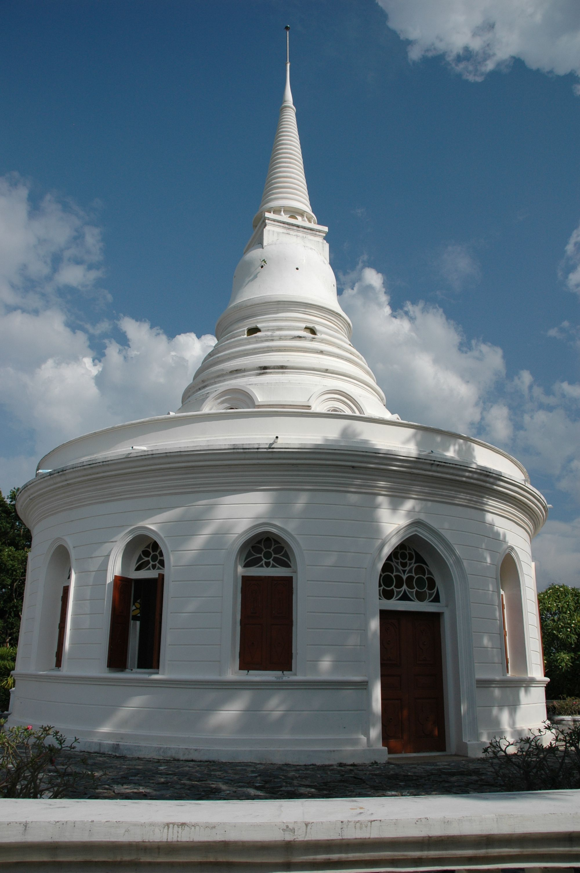 Phra Chedi of Wat Asdangkhanimit, Ko Sichang, Chonburi, Thailand